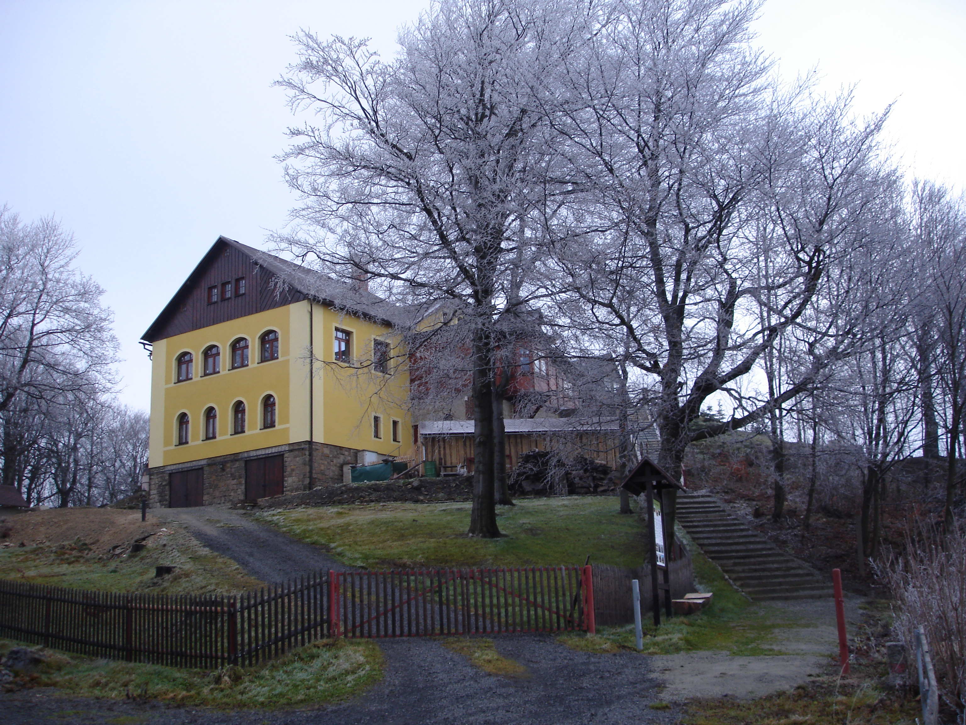 Jánské kameny in Lužické hory (Lusatian mountains), Czech Republic